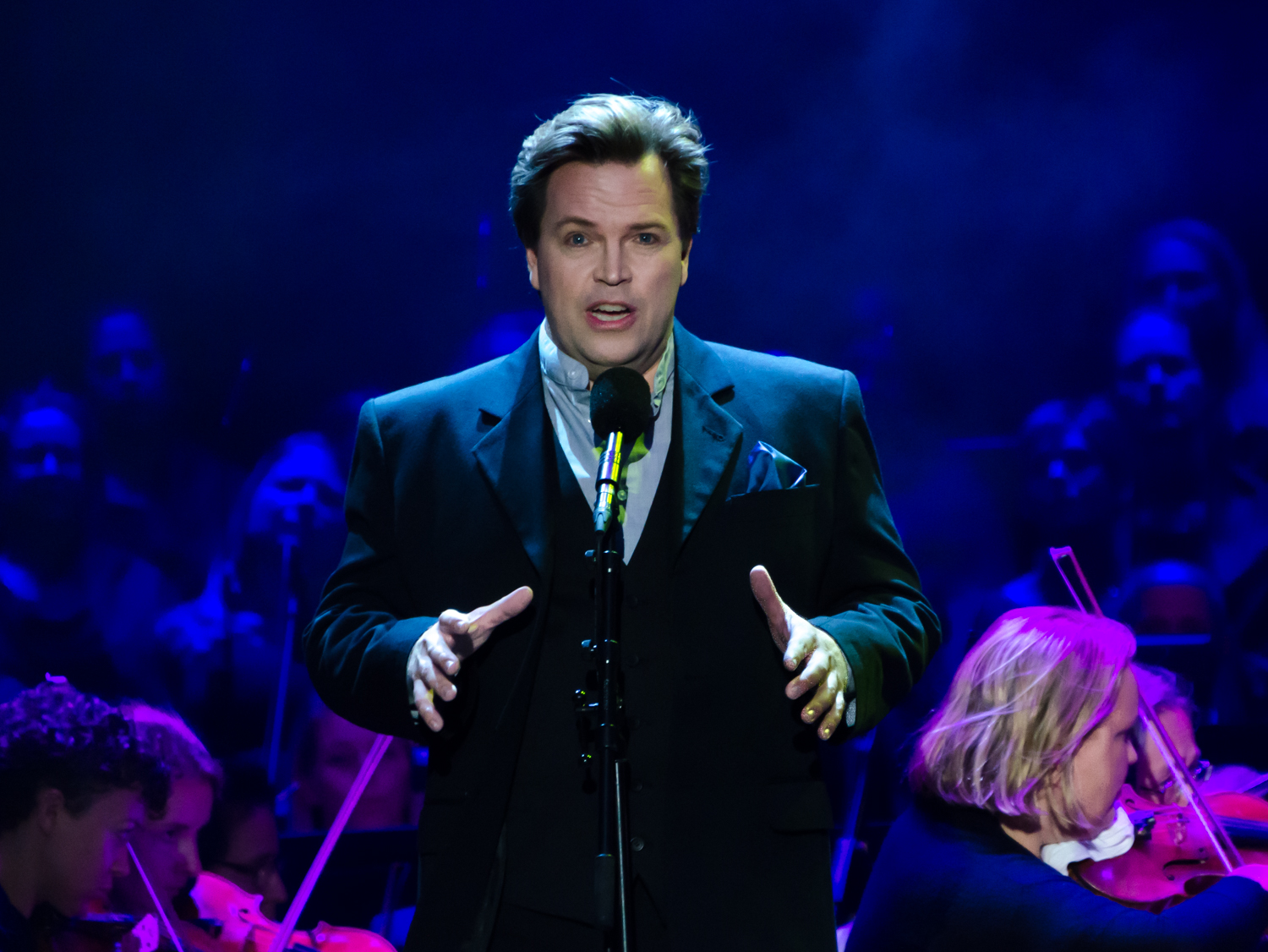 Ola Eliasson together with the Royal Court Chapel at Gustav Adolf Square during the Stockholm Cultural Festival on August 17, 2019. He performs "In einem Lande einem bleicher König" from Der ferne Klang (Franz Schreker (1878-1934).